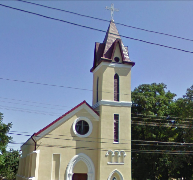 micalaca